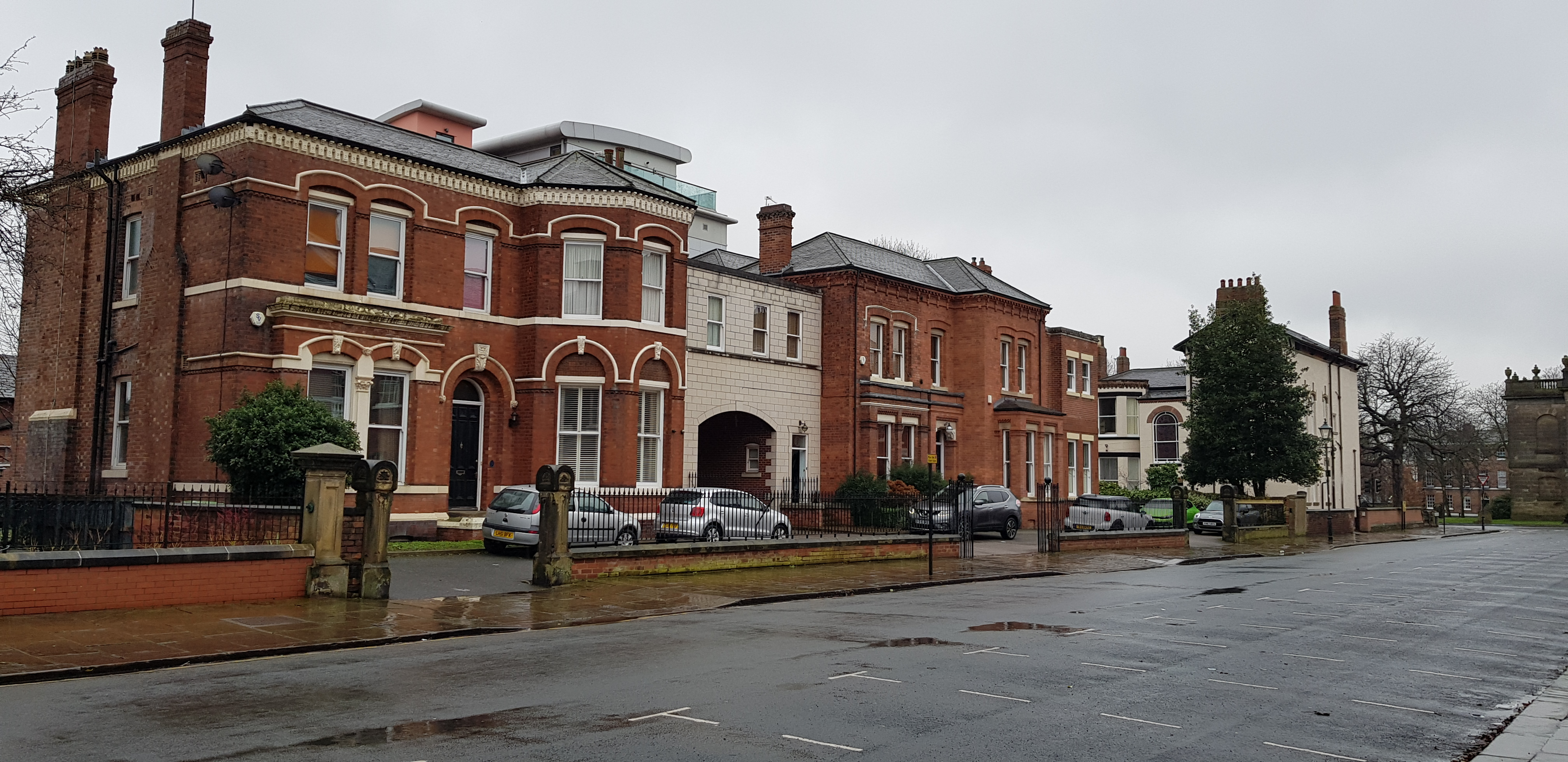 Former Trust HQ for Wakefield and Pontefract Community Health NHS Trust - Fernbank, 3-5 St. John's North, Wakefield, United Kingdom.